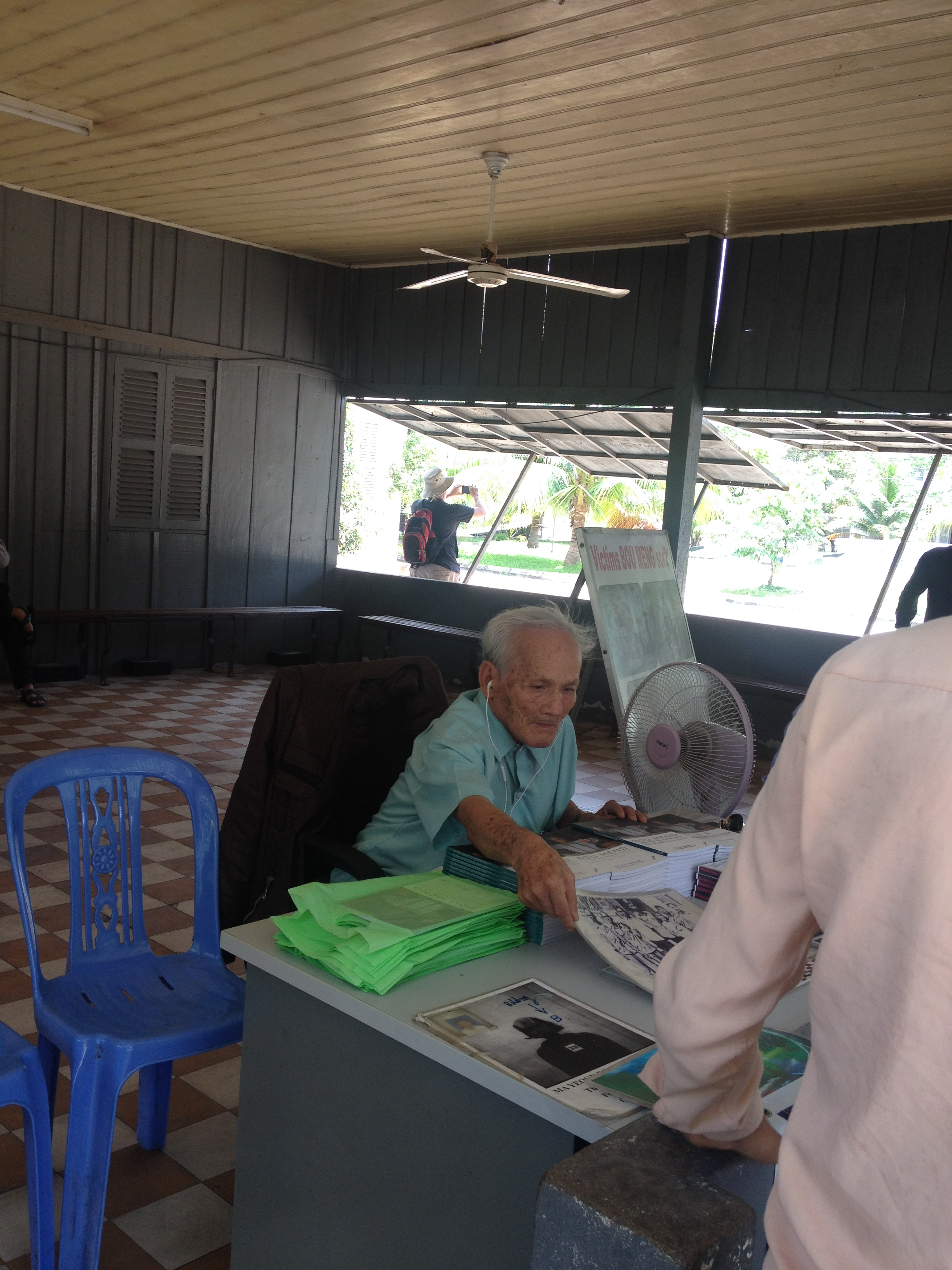 26th April 2018 - Bou Meng presenting the book about him (writteh by Huy Vannak) and DVD inside Tuol Sleng